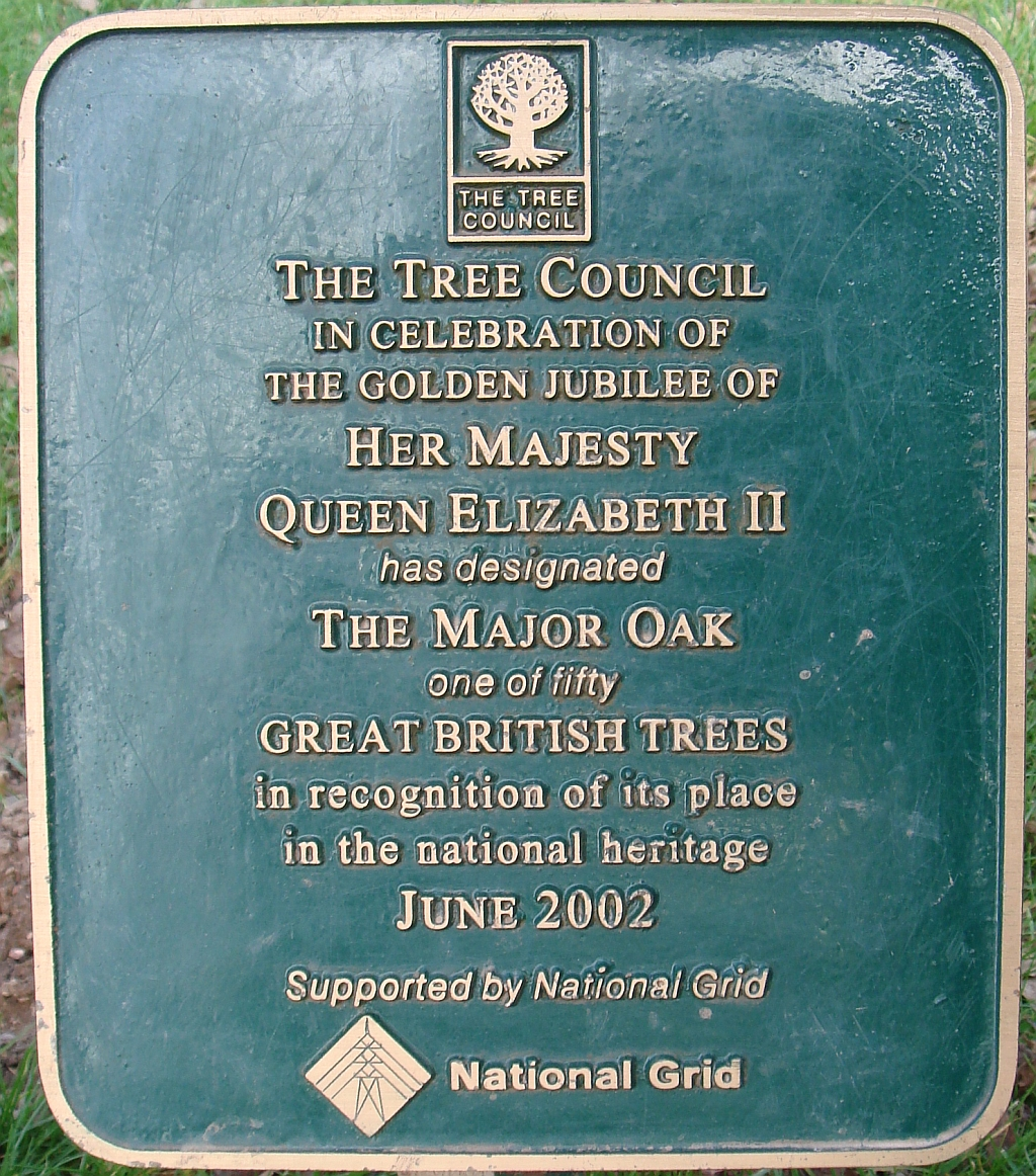 A plaque indicating The Major Oak is one of the Great British Trees